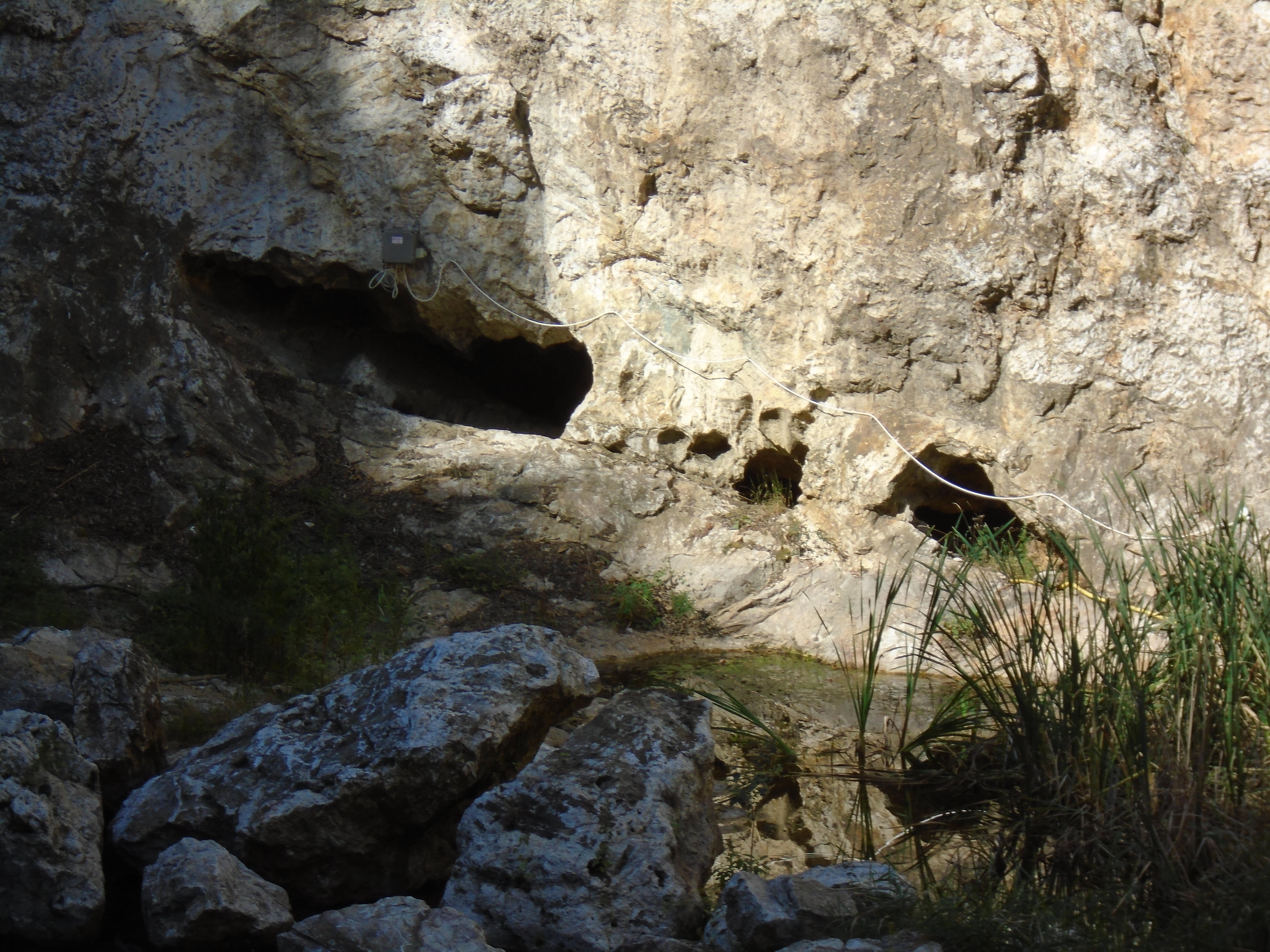 Entrance of Csókavári Cave in Üröm.